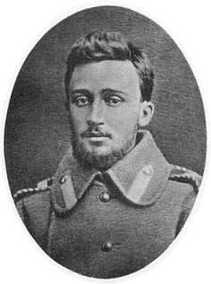 Russian writer Garsin, Vsevolod Mikhaylovich.